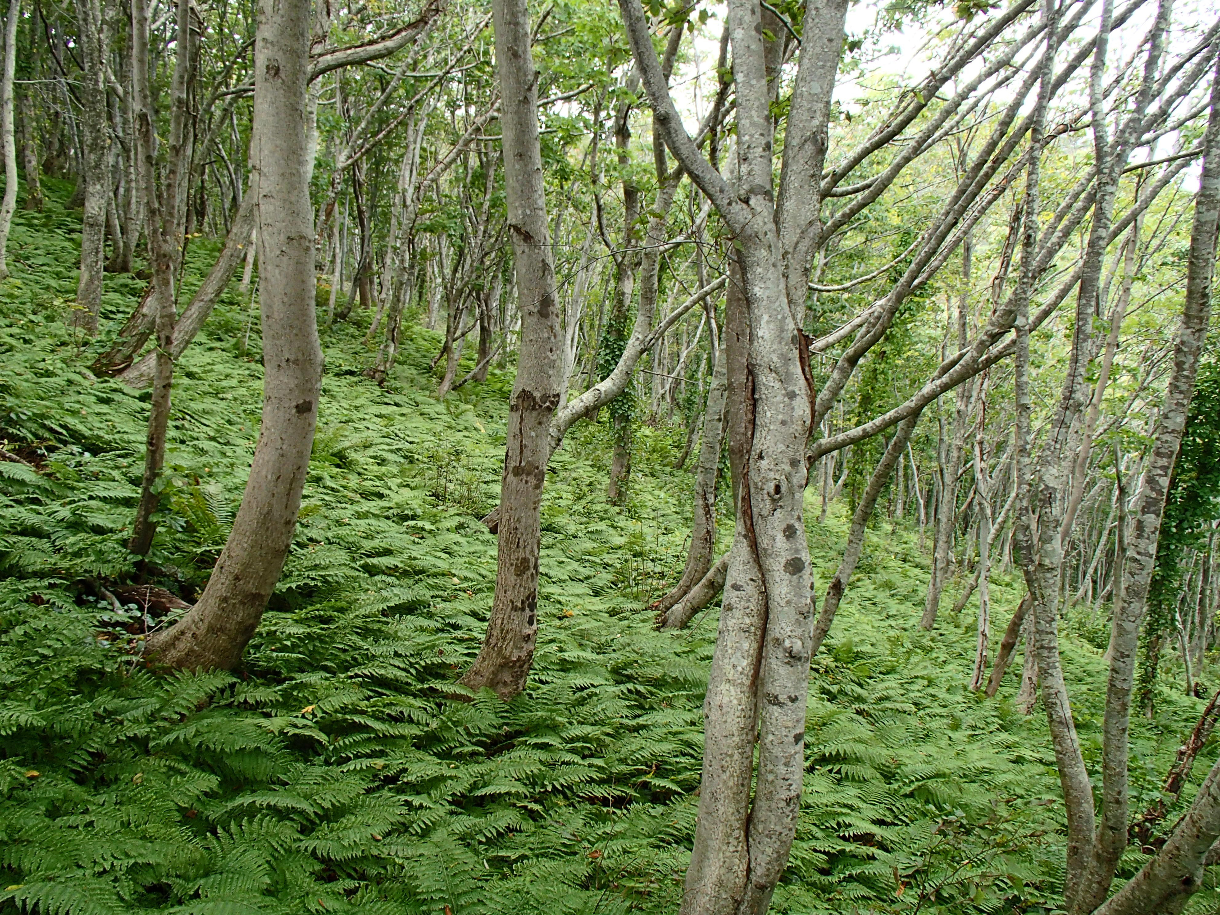 This is a photo of the forest leading up Seonginbong peak on Ulleung Island.